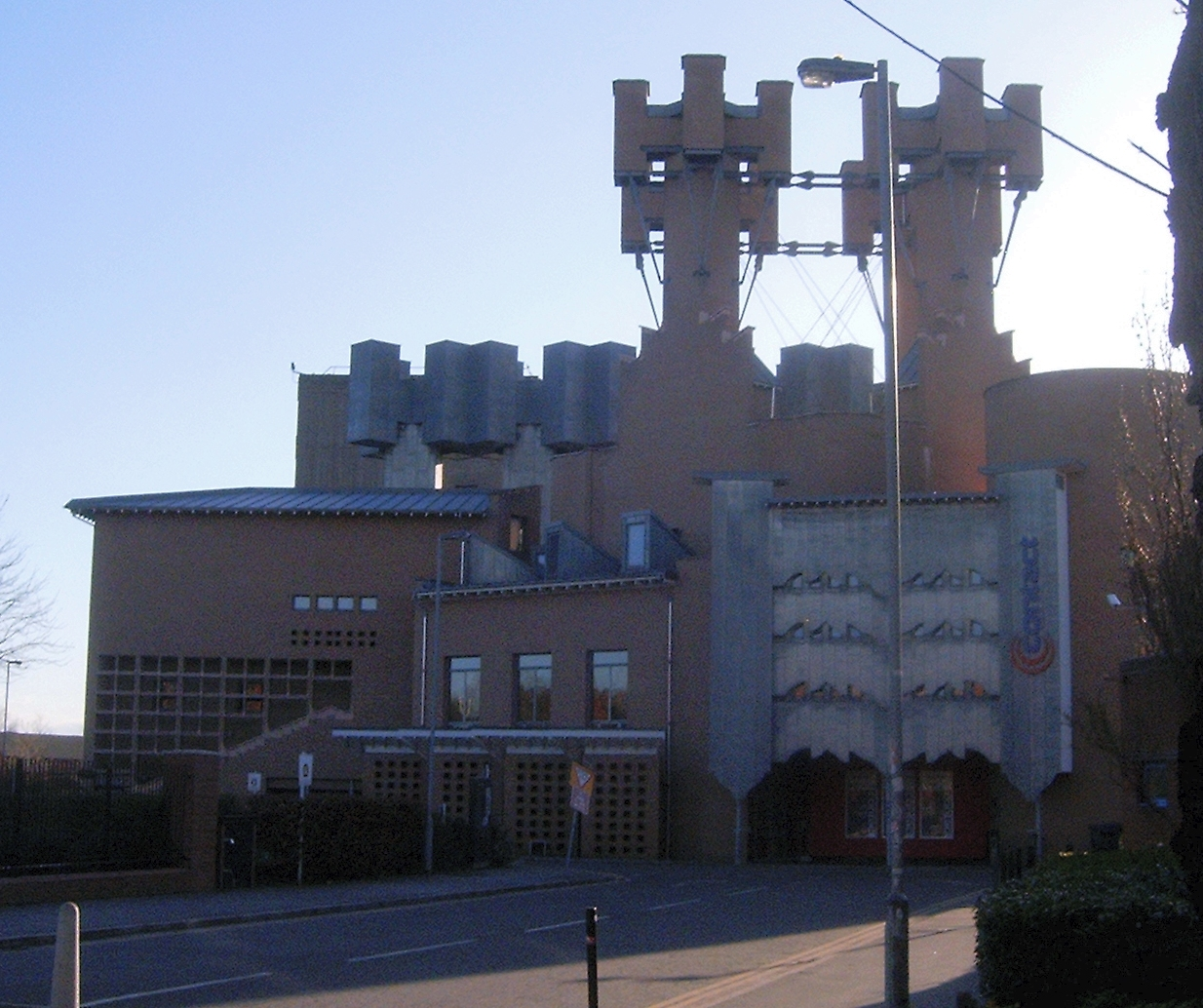 Contact Theatre, Manchester